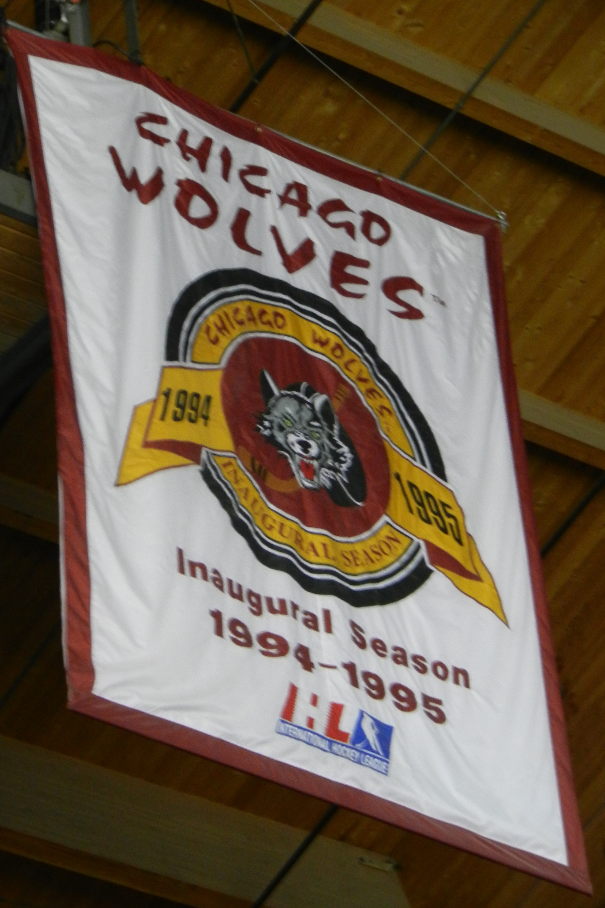 Banner hanging in the Allstate arena recognizing the Chicago Wolves inaugural season